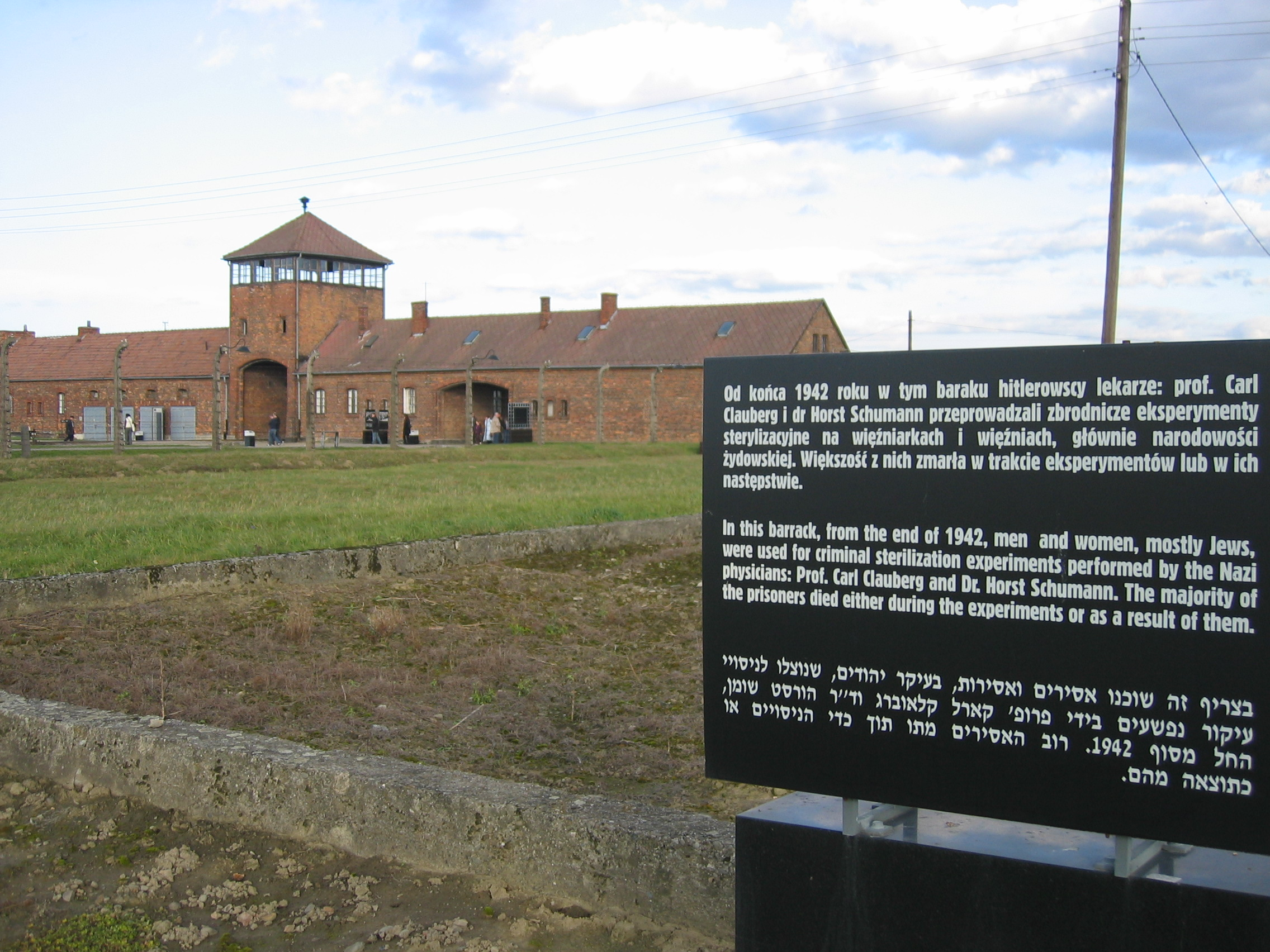 Main building of Auschwitz Birkenau and a commemorative plaque in front of the stereobate (foundation walls) of a barrack.